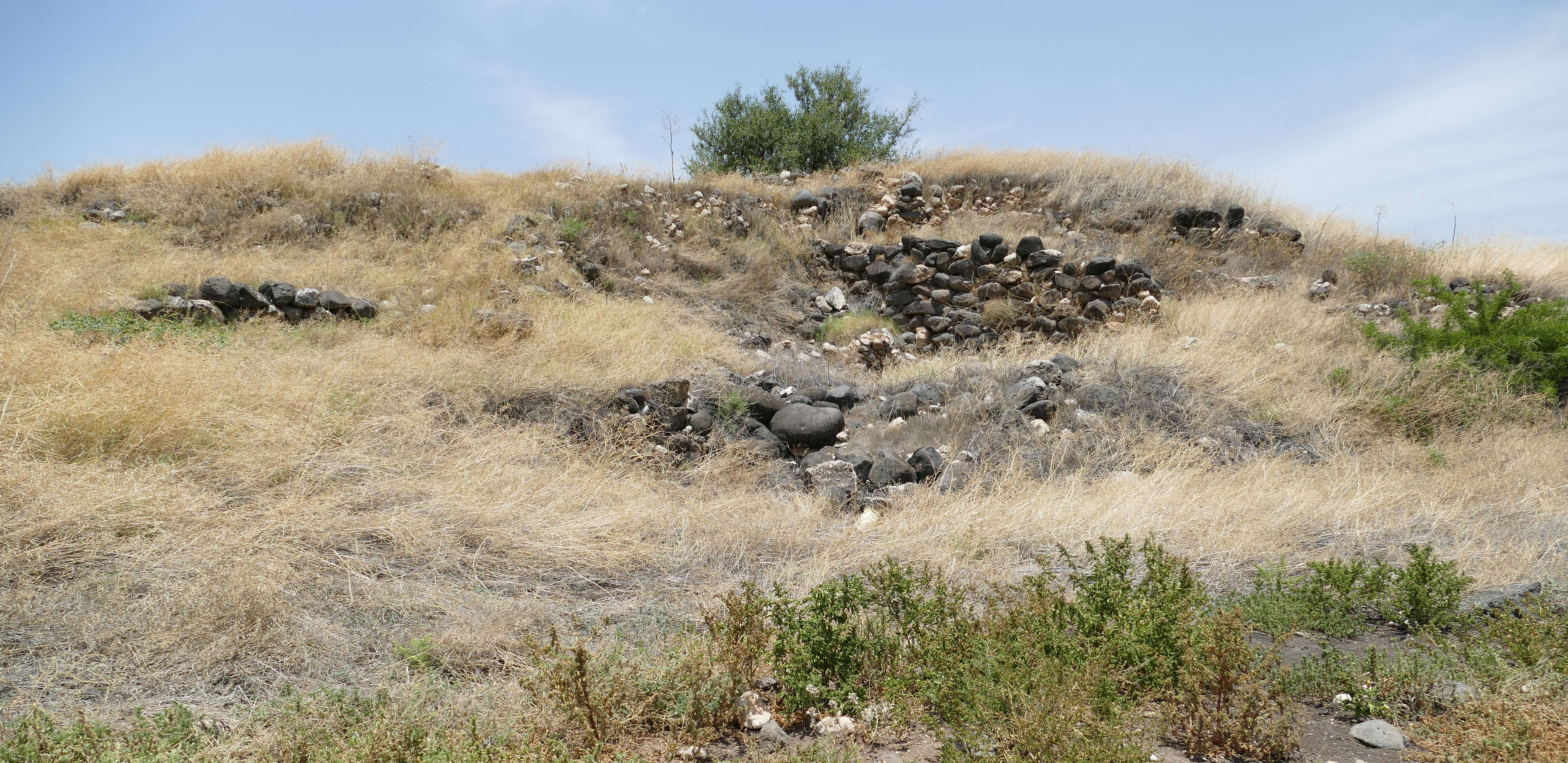 Tel Kinarot, Israel.